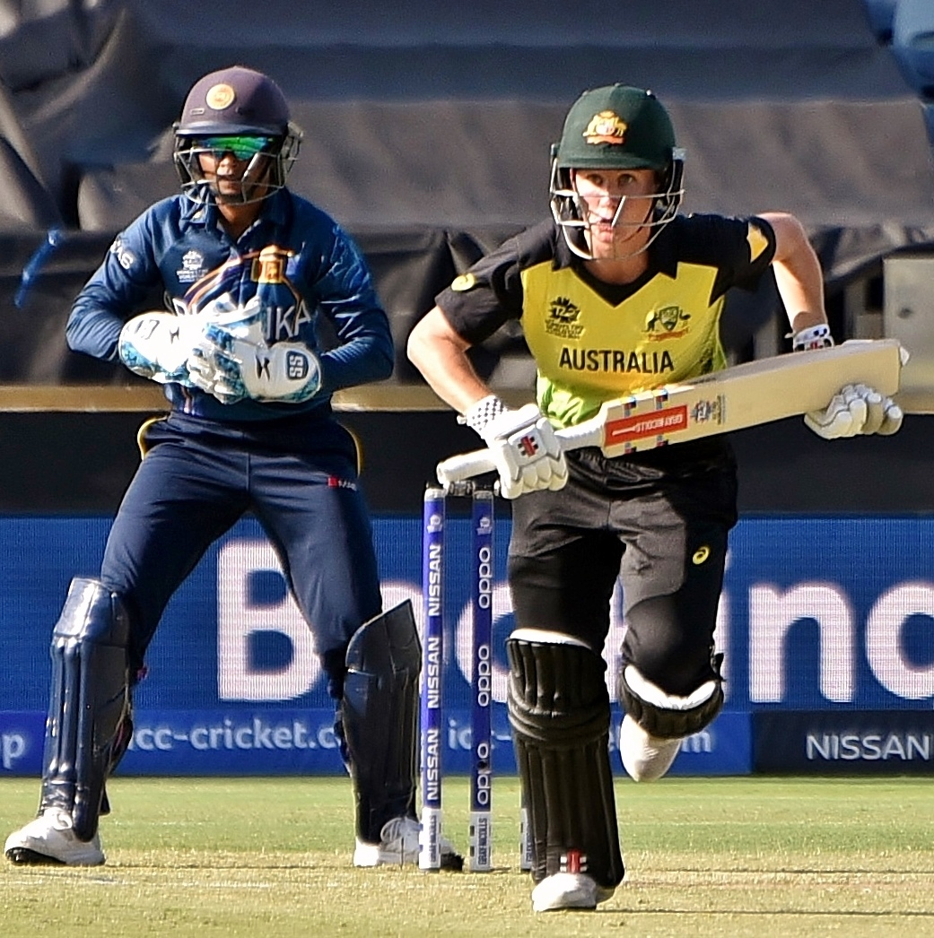 Beth Mooney batting for Australia against Sri Lanka during their 2020 ICC Women's T20 World Cup match at the WACA Ground in Perth, Australia. The wicket-keeper is Anushka Sanjeewani.